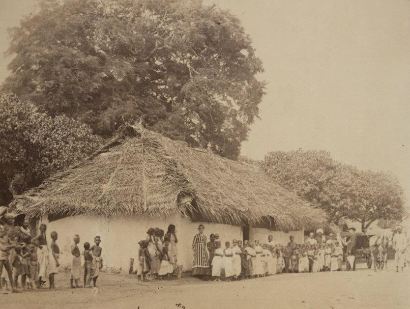 A picture of Mrs. Thomson's Eraneel Girls' School, Travancore [now Kerala]. Possibly Mrs Ann Thomson, second wife of Dr. Thomas Thomson, with students of the girls' school. A man stands next to a carriage to the right of the school house, possibly Dr. Thomas Thomson.; Number 36 of a set of 88 mounted albumen prints, originally numbered 1 to 123. Ralph Wardlaw Thompson was Foreign Secretary of the London Missionary Society from 1881 to 1914, then Secretary Emeritus until his death in 1916. He led the Deputation which took place between September 1882 and April 1883, during which time, a number of these prints may have been taken or acquired. The subject matter of some of these prints suggest they were taken by Dr. Thompson or one of his missionary colleagues, although others are clearly commercial prints purchased at the time by photographers such as Samuel Bourne. Many of these prints were loaned to the Norwich Missionary Loan Exhibition